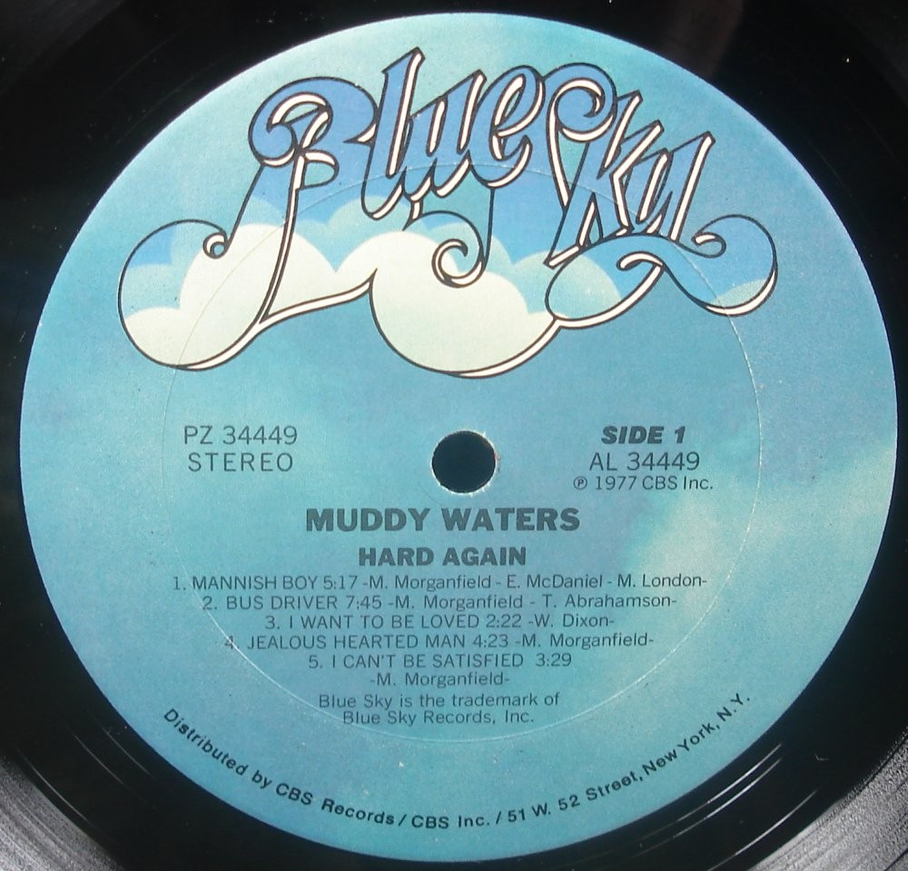 Hard again